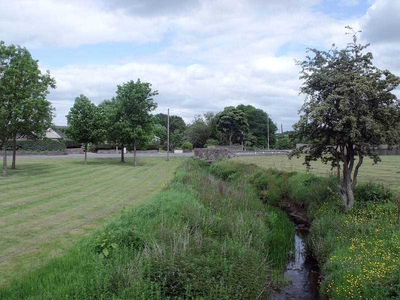 The Garnkirk Burn